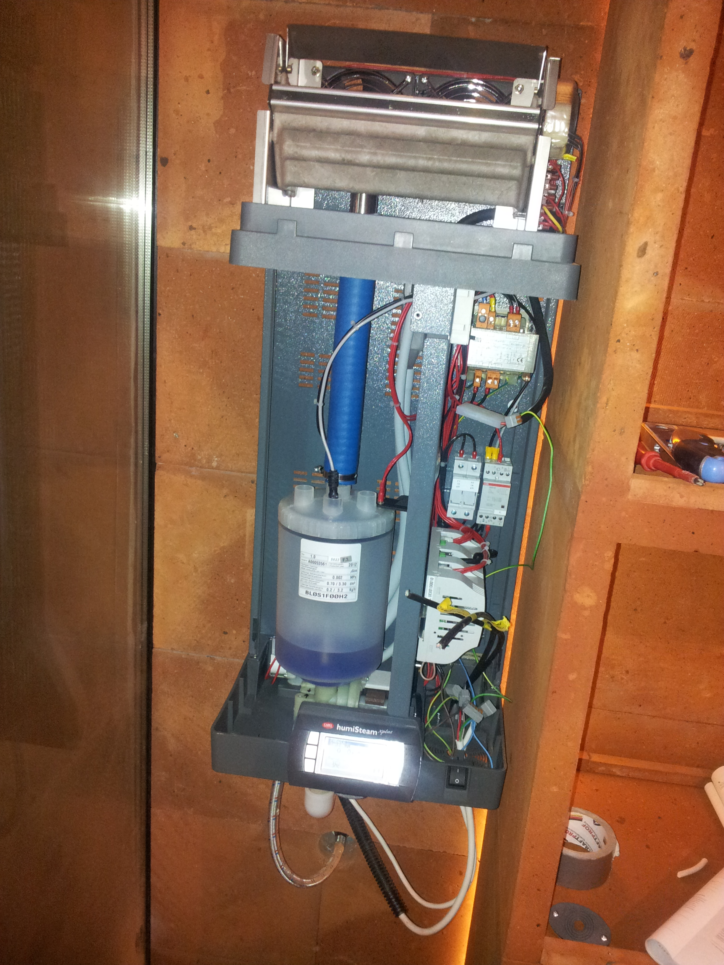 Steam humidifiers. Is set in the wine cellar.